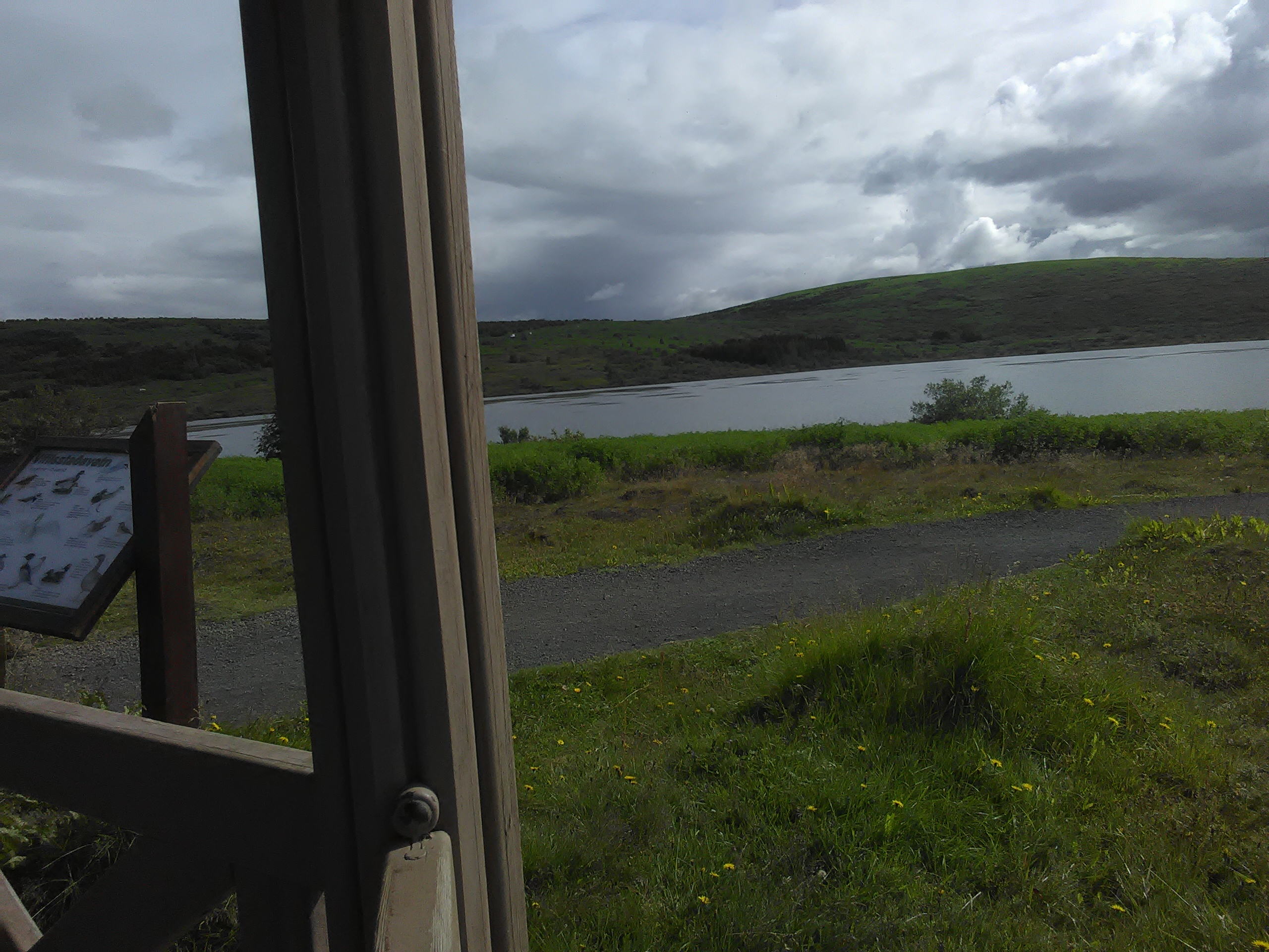 Vifilsstadavatn, Hafnarfjördur, Iceland